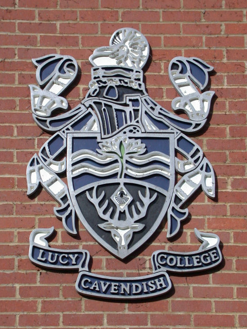 Oldham Hall - detail. The college coat of arms on 703753